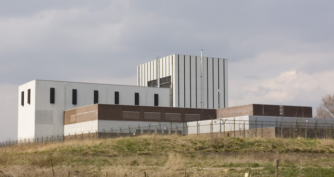 Dodewaard Nuclear Reactor, viewed from the riverbank in it's disassembled/inactive state awaiting demolition